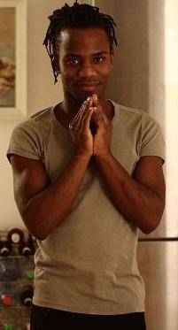 Derek Nowak 2010 - own work